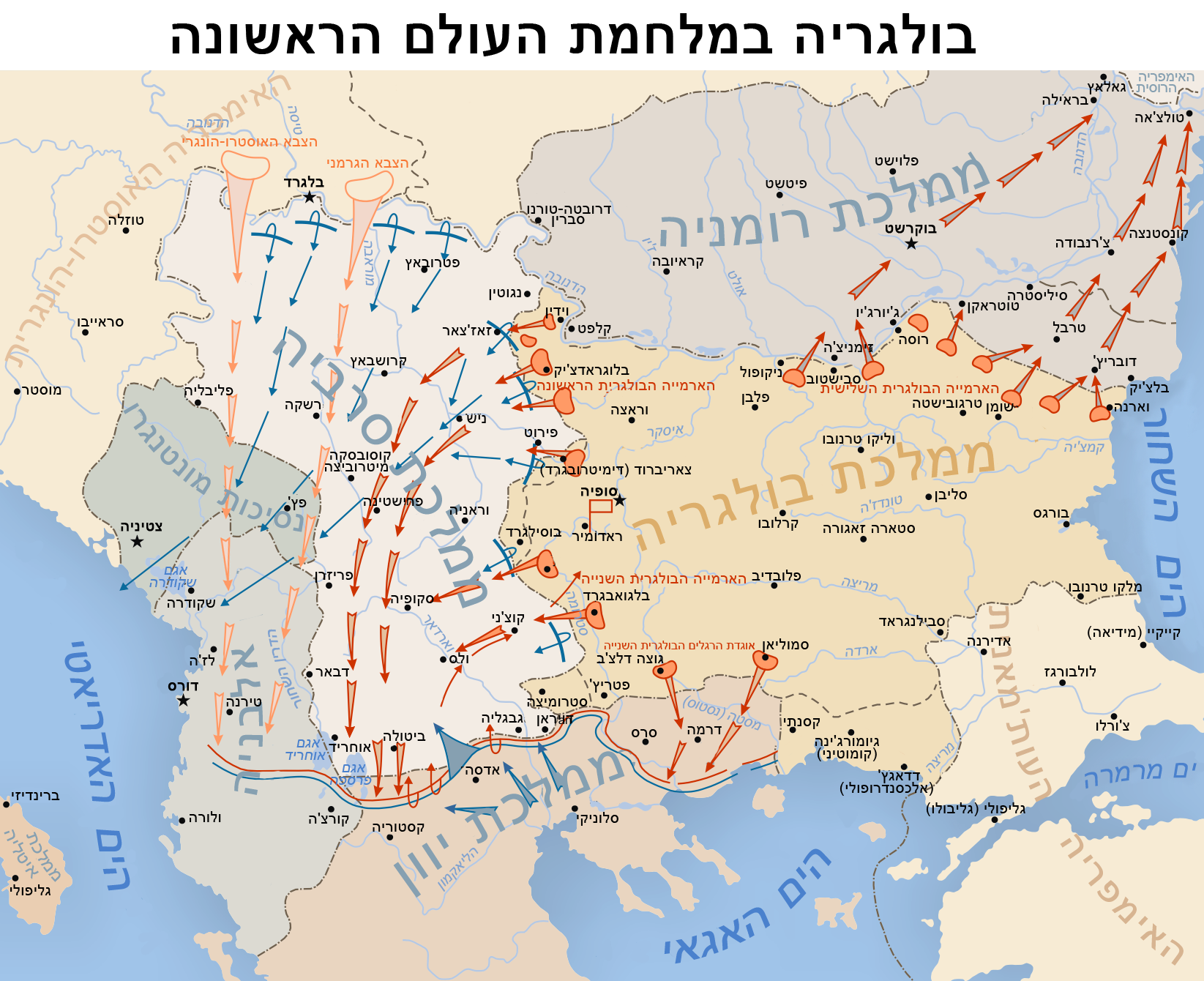 Bulgaria during World War I